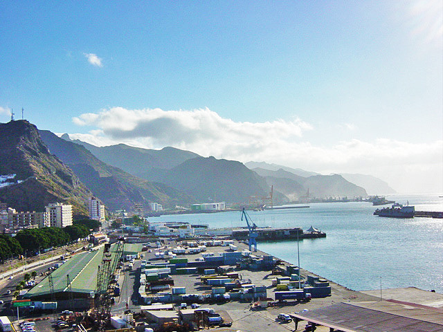 Santa Cruz de Tenerife Harbour (Tenerife). Canary Islands, Spain.